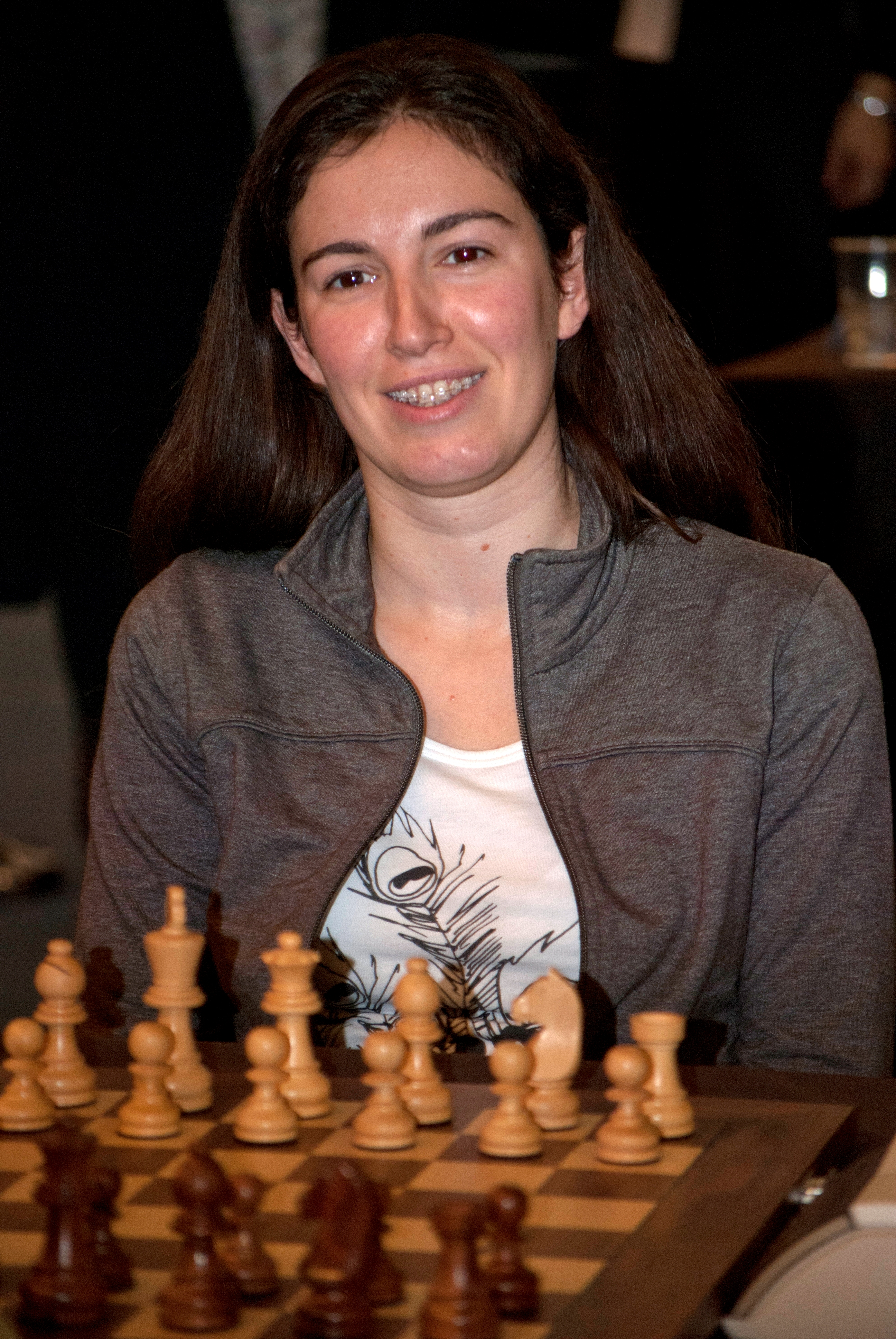 IM Yelena Dembo, Porto Carras EchT 2011.